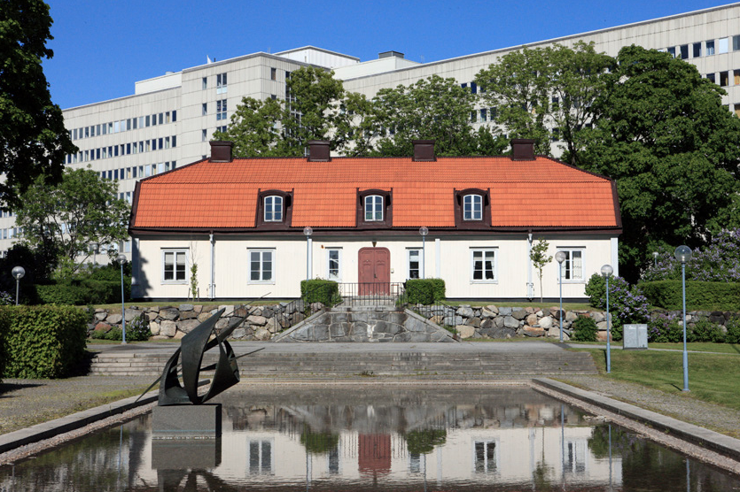 Råcksta gård